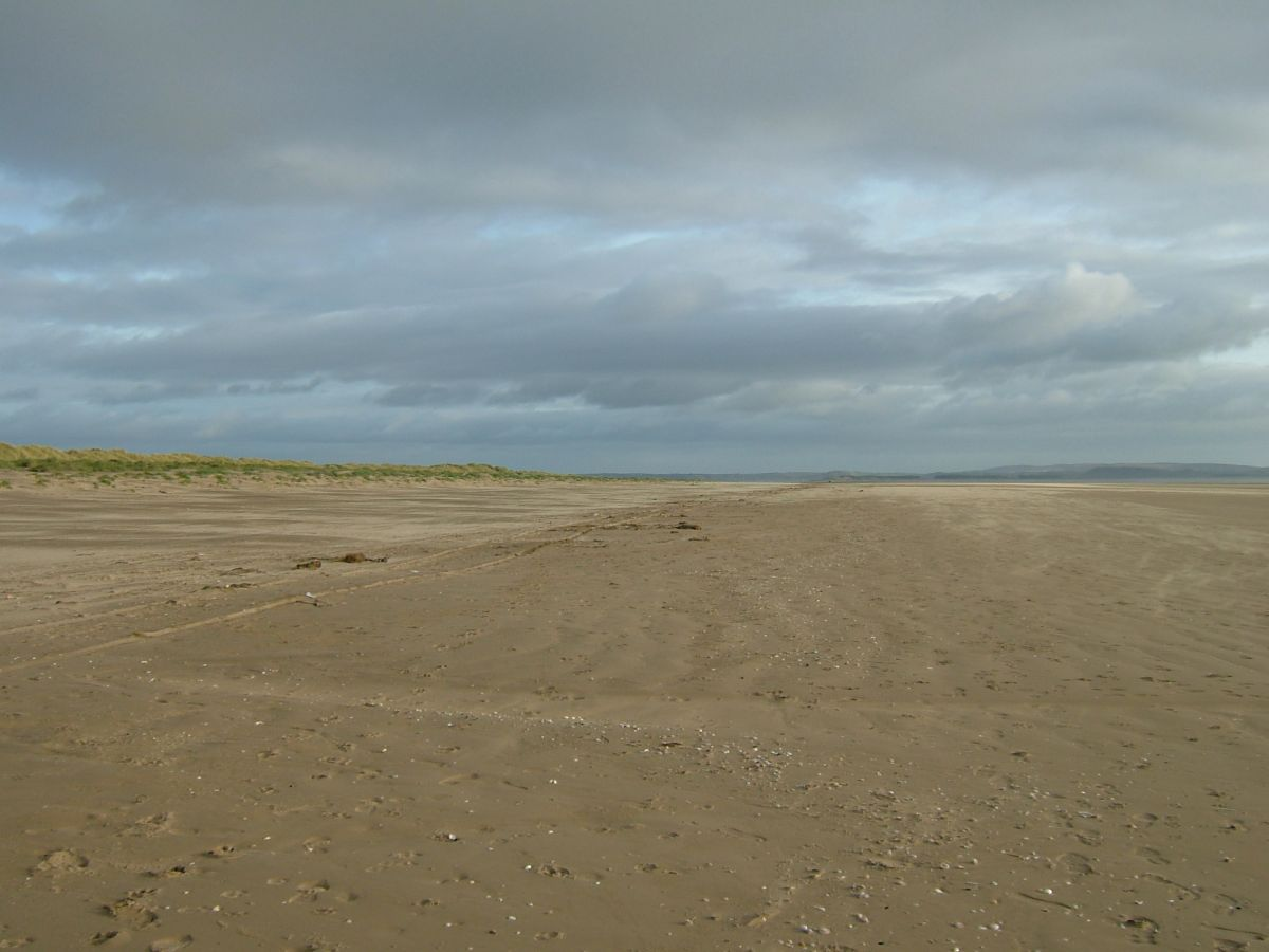 This is a photo that I took on Cefn Sidan